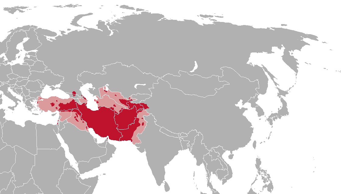 Distribution of modern Iranian languages (dark red) and areas/nations with influental minority groups.